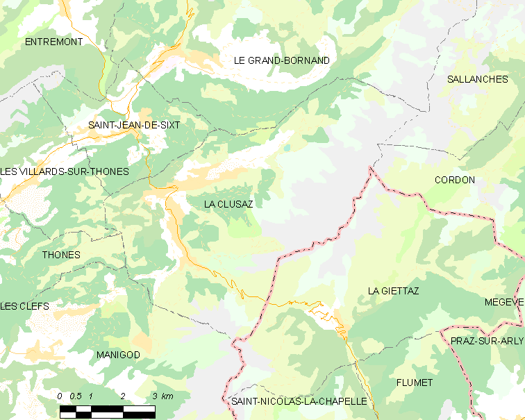 Map of French municipality La Clusaz